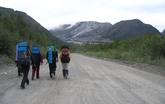 mountain hiking in Hibiny (North Russia) Беларуская (тарашкевіца): горна-пешы паход па Хібінах (поўнач Расеі)